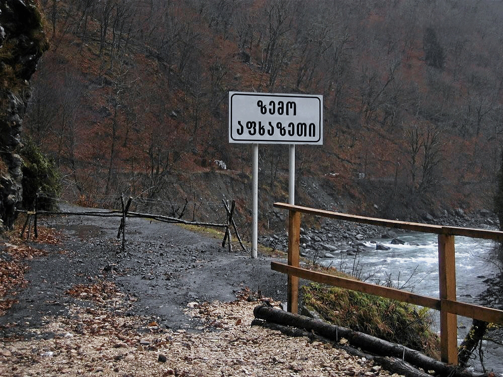 "Upper Abkhazia" sign, Azhara, Upper Abkhazia.